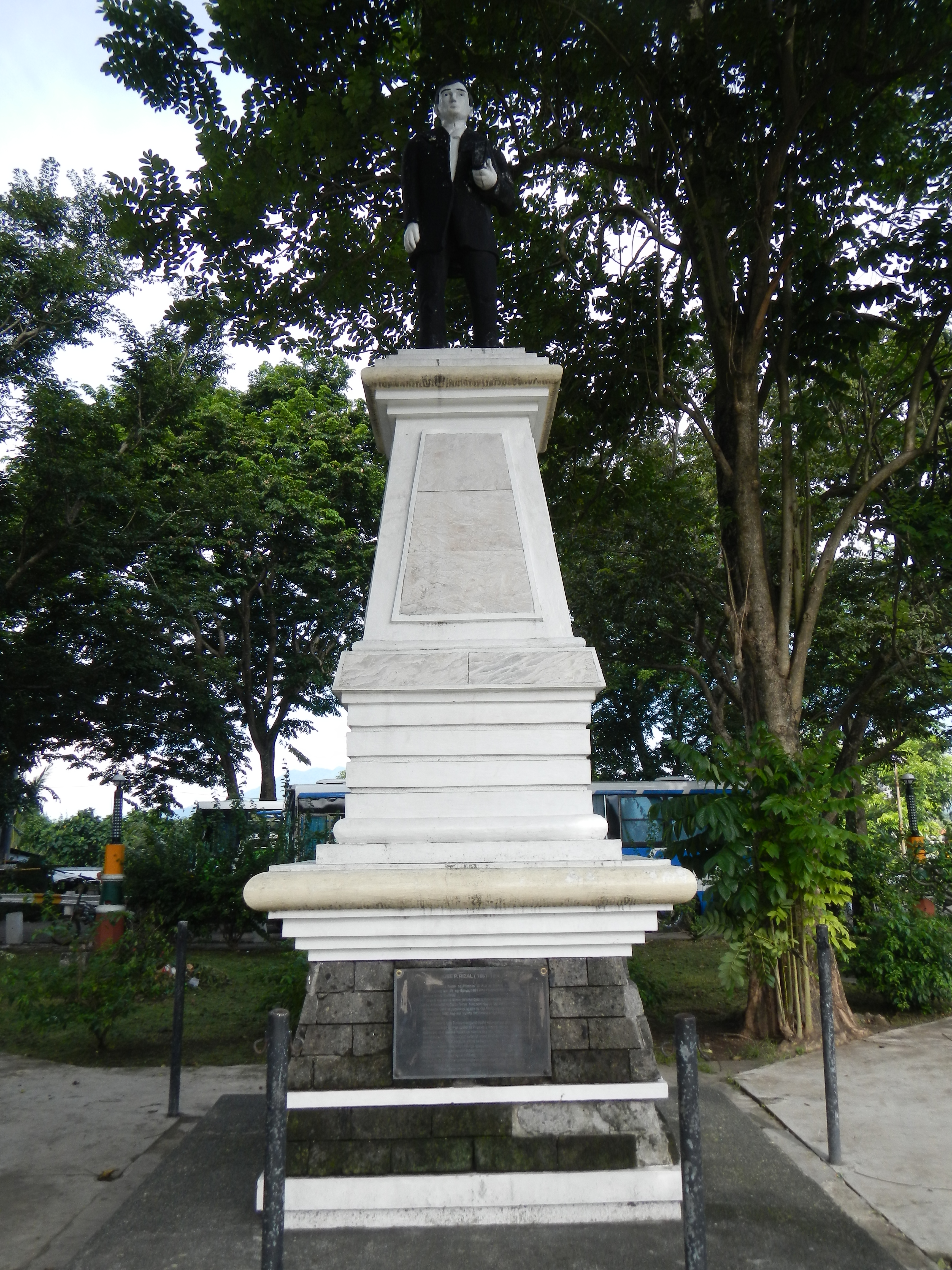 Upload wizard (rare, raw, unedited and original/own work) photos of Scenery: National Highway, Crossing and Junction, including the Jose Rizal Monument [1] going to the District Highway Boundary Barangays of Bay, Laguna[2] & Calauan, Laguna[3] (on the right) and City of San Pablo [4] and towns of Nagcarlan[5], Santa Cruz [6] and Siniloan [7] (straight). --- -------- Bay, Laguna[8] is a second class[9] municipality politically subdivided into 15 barangays, one of the oldest towns in the province of Laguna[10], Philippines, covering even Los Baños [11] and Calauan[12]. In 1581, Bay became the capital of the Province of Laguna de Bay and remained so until 1688 when the capital was moved to Pagsanjan. The Patron of Bay is Saint Augustine of Hippo [13] celebrating his Feast Day during August 28. [14] Coordinates: 14°8'1"N 121°15'9"E [15] Laguna, Region 4, Philippines, Asia Geographical coordinates: 14° 10' 58" North, 121° 17' 5" East This place is situated in Laguna, Region 4, Philippines, its geographical coordinates are 14° 10' 58" North, 121° 17' 5" East and its original name (with diacritics) is Bay. LLDA [16] ------- Calauan, Laguna [17] is a second class municipality in the province of Laguna, Philippines. According to the 2010 census, it has a population of 74,890 people.[2] The town got its name from the term kalawang, which means rust. Calauan is known for the Pineapple Festival, which is celebrated every May. In 1993, the town became the focus of media attention when Antonio Sánchez;[18] The Patron of Calauan is Saint Isidore the Laborer,[19] the patron of farmers.Website [20] Coordinates: 14°7'58"N 121°17'34"E